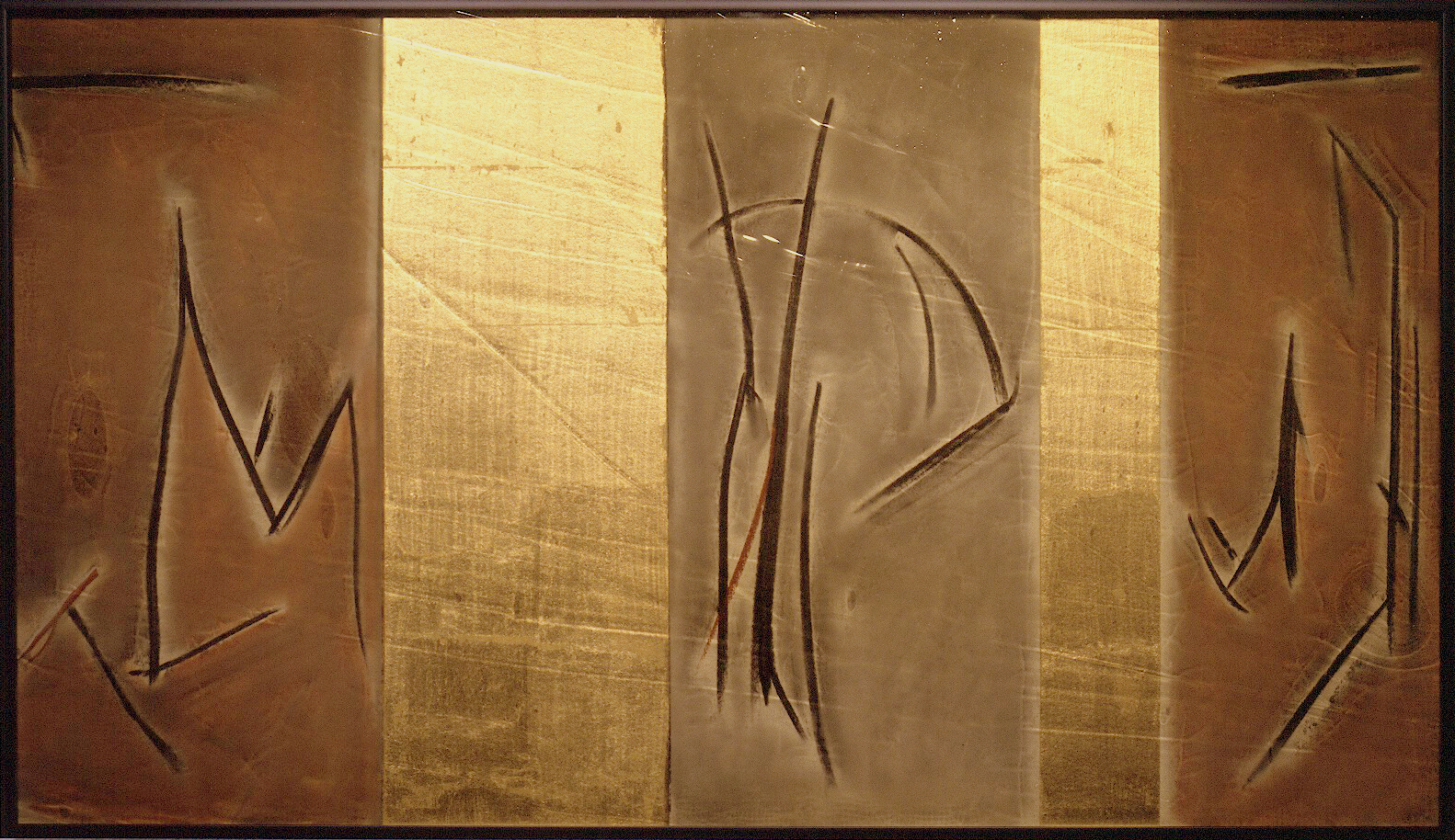 Preliminary design for "Millennium Byōbu" — by Robert Kehlmann (1992). Sandblasted hand-blown glass, mixed media on board. Final artwork in NYC.